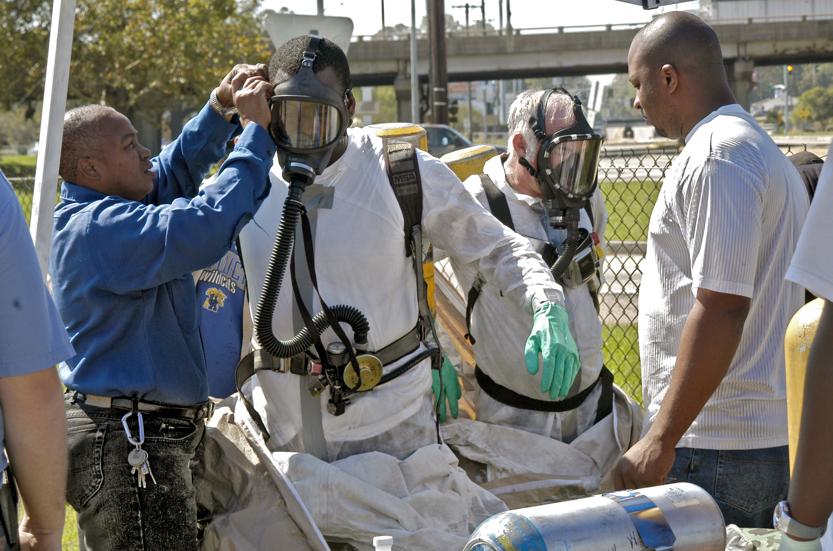 Baton Rouge, La., October 9, 2005 - A HAZMAT instructor (left) adjusts the respirator mask being used by one of two area Emergency Medical Technician team members who are preparing to respond to a simulated rescue operation to a chemical spill. All first responders cleaning up the toxic conditions caused by Hurricanes Katrina and Rita have undergone similar training.